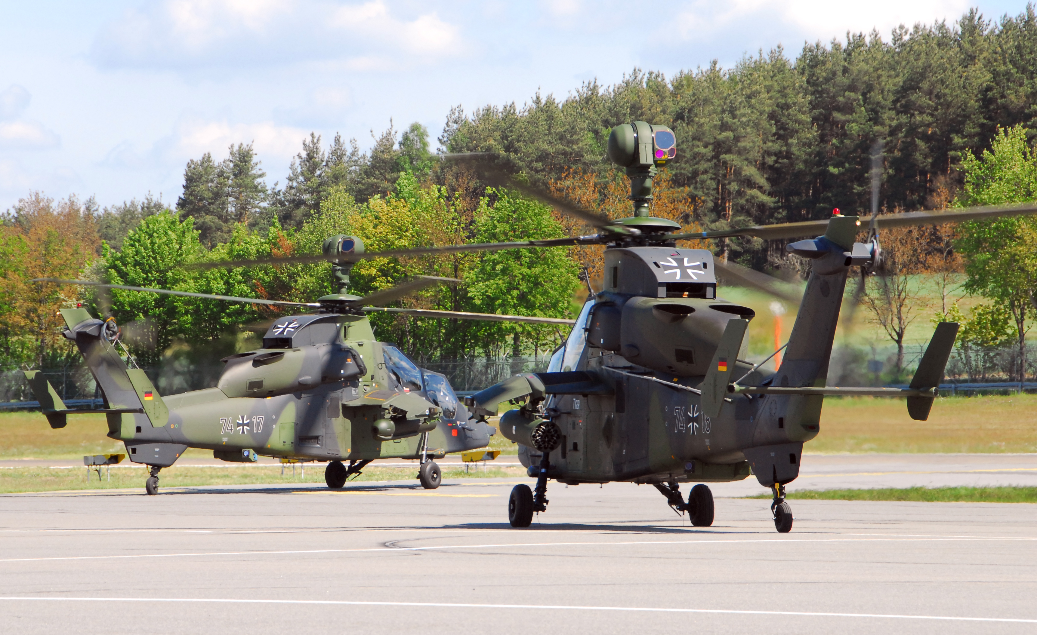 Two of Germany's new Eurocopter Tiger attack helicopters taxi on the Grafenwoehr Army Airfield before departing after a weekend of live-fire training with U.S. Army AH-64 Apache attack helicopters.